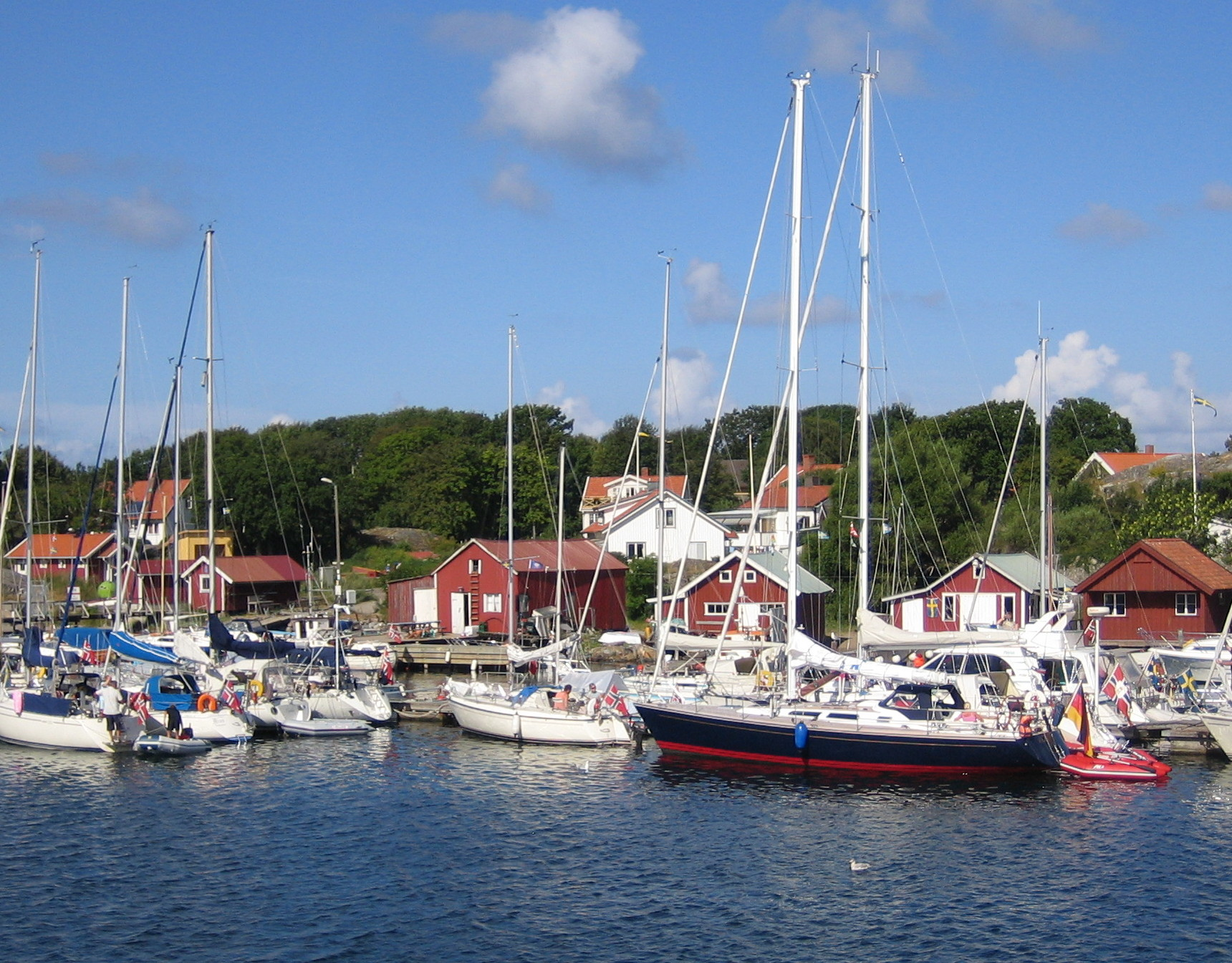 Picture from the strait at the Koster islands, Strömstad municipality, Bohuslän, Sweden.